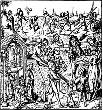 Jugglers of the Middle Ages